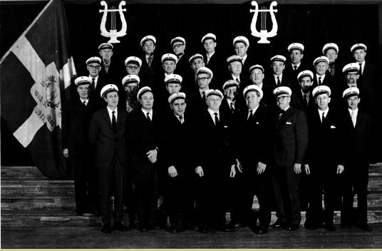 Members of the man choir Horne Mandskor af 1845, 125th anniversary in 1979